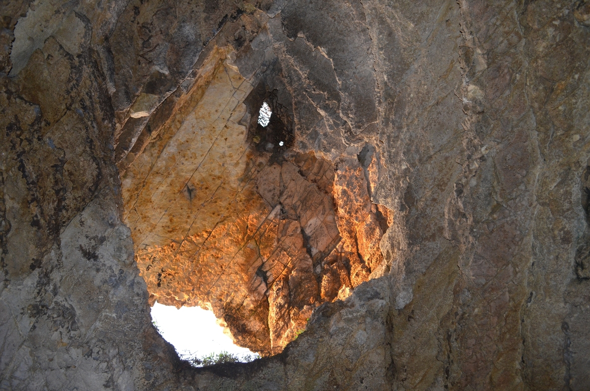 Huto cave